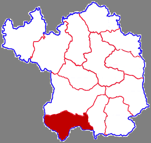 Location of Huangling county in Yan'an city, China